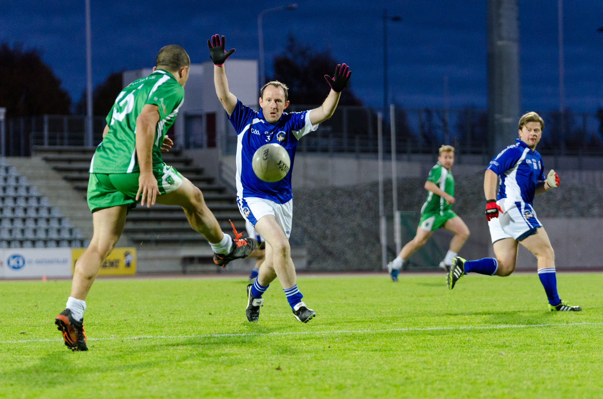 The Northernmost Irish Football game in the world played in Oulu, Finland between Oulu Irish Elks (green) and Helsinki Harps (blue).